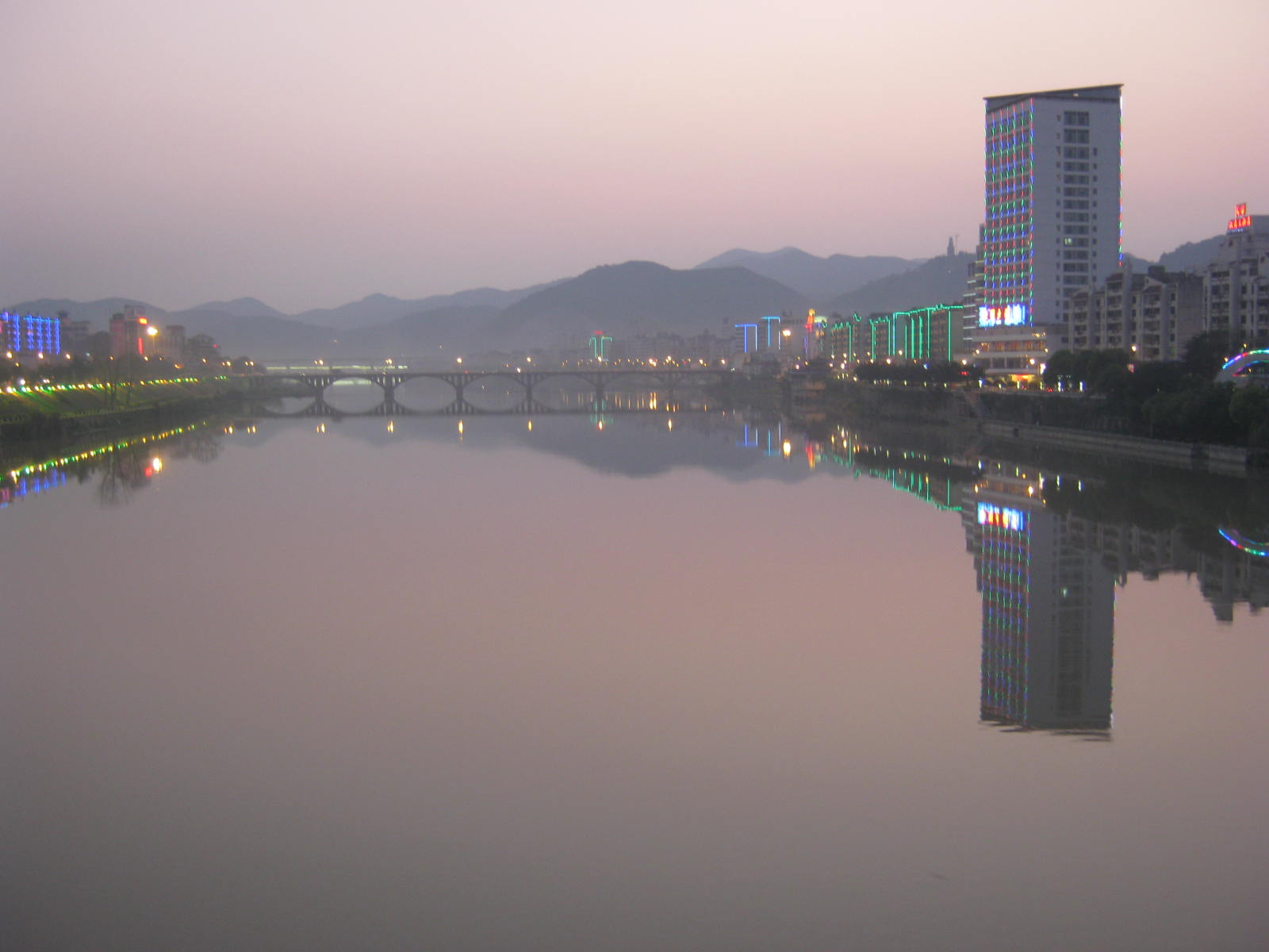 ShaXian, Fujian. ShaXi river.